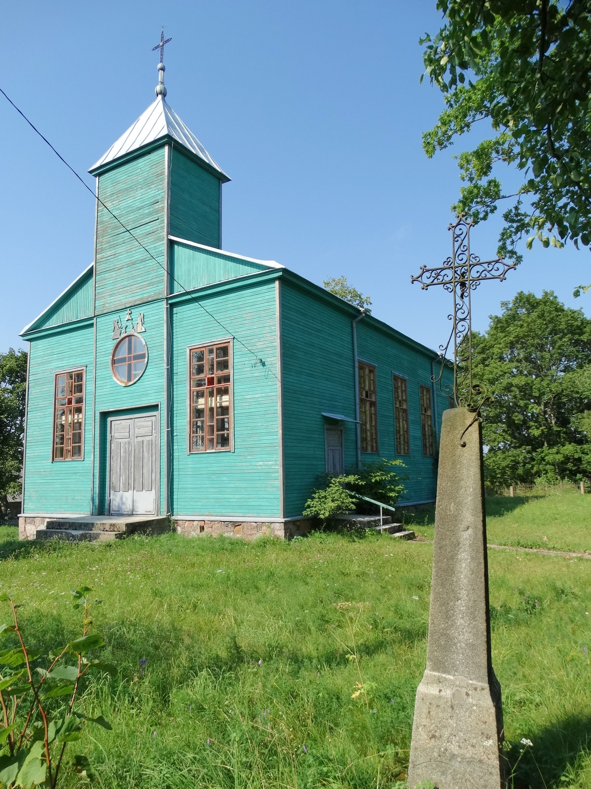 Roman Catholic Church,Daunoriai, Utena district, Lithuania